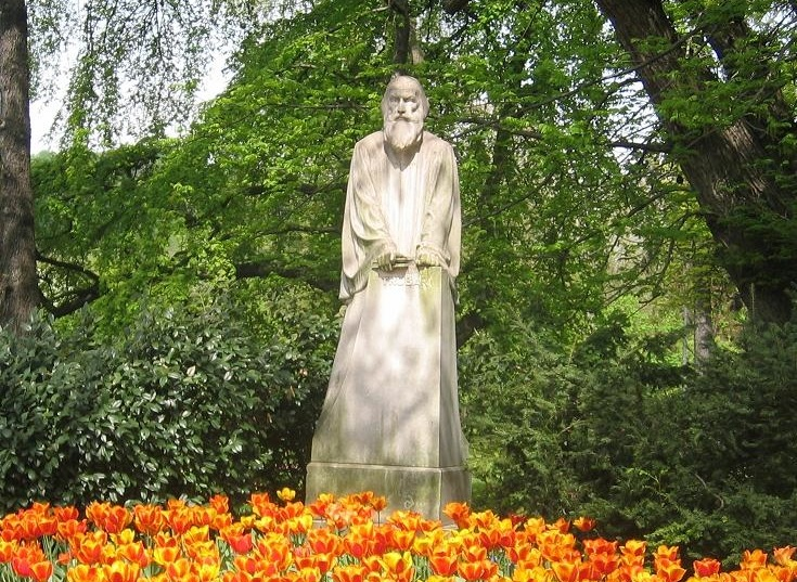 Primož Trubar, writer, protestant priest - statue in Ljubljana.